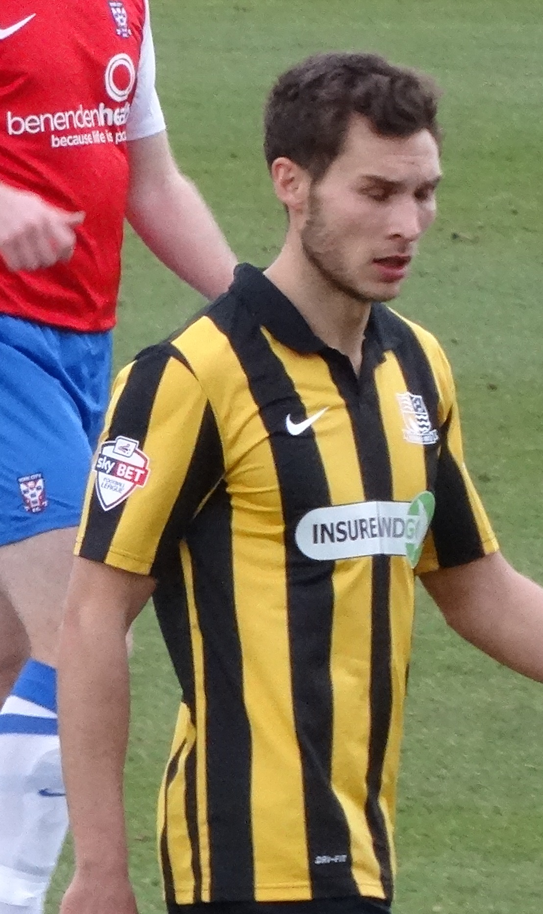 Will Atkinson.